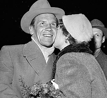 Rauno Mäkinen with wife upon arrival to Finland from the 1956 Olympics